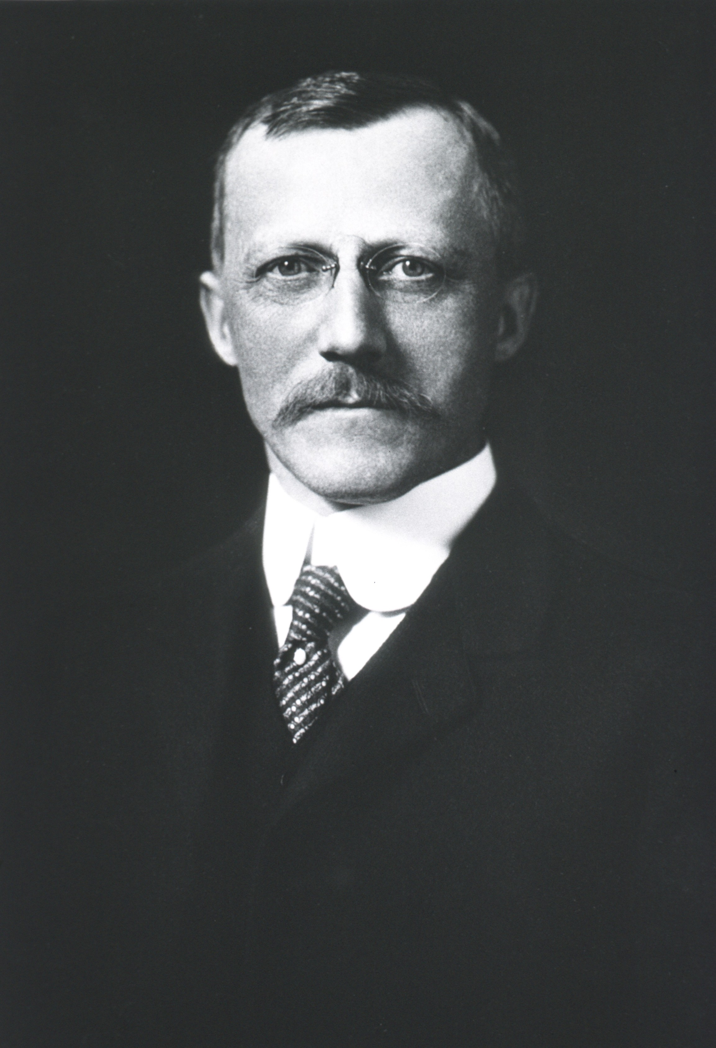 Thomas C. Gilchrist, American dermatologist, 1862 - 1927